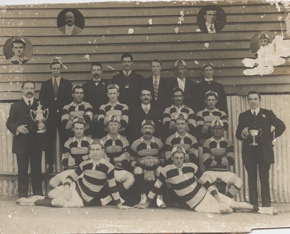 Nambour Football Club, premiers and winners of the Charity Cup (N. C. R. Union), 1912 Back row from left : C. Eltherington, R. Berry, F. Murtagh, S. Brockhurst, W. Dell, G. Webster. Second row : Wm. Whalley (Vice-President), D. Lucas, H. Brockhurst, T. T. Chadwick (Vice-President), B. Lucas, R. Capper, D. L. Murtagh (Vice-Presdent). Third row : A. J. Phillips, D. Aiken, J. Tyrrell (Capt.), J. Campbell, T. Richards. Front row : E. Pilkington (Hon. Secretary-Treasurer), J. Page. Inset : E. Neeson, J. T. Lowe (President), M. Smith, R. Aird. (Description supplied with photograph.).